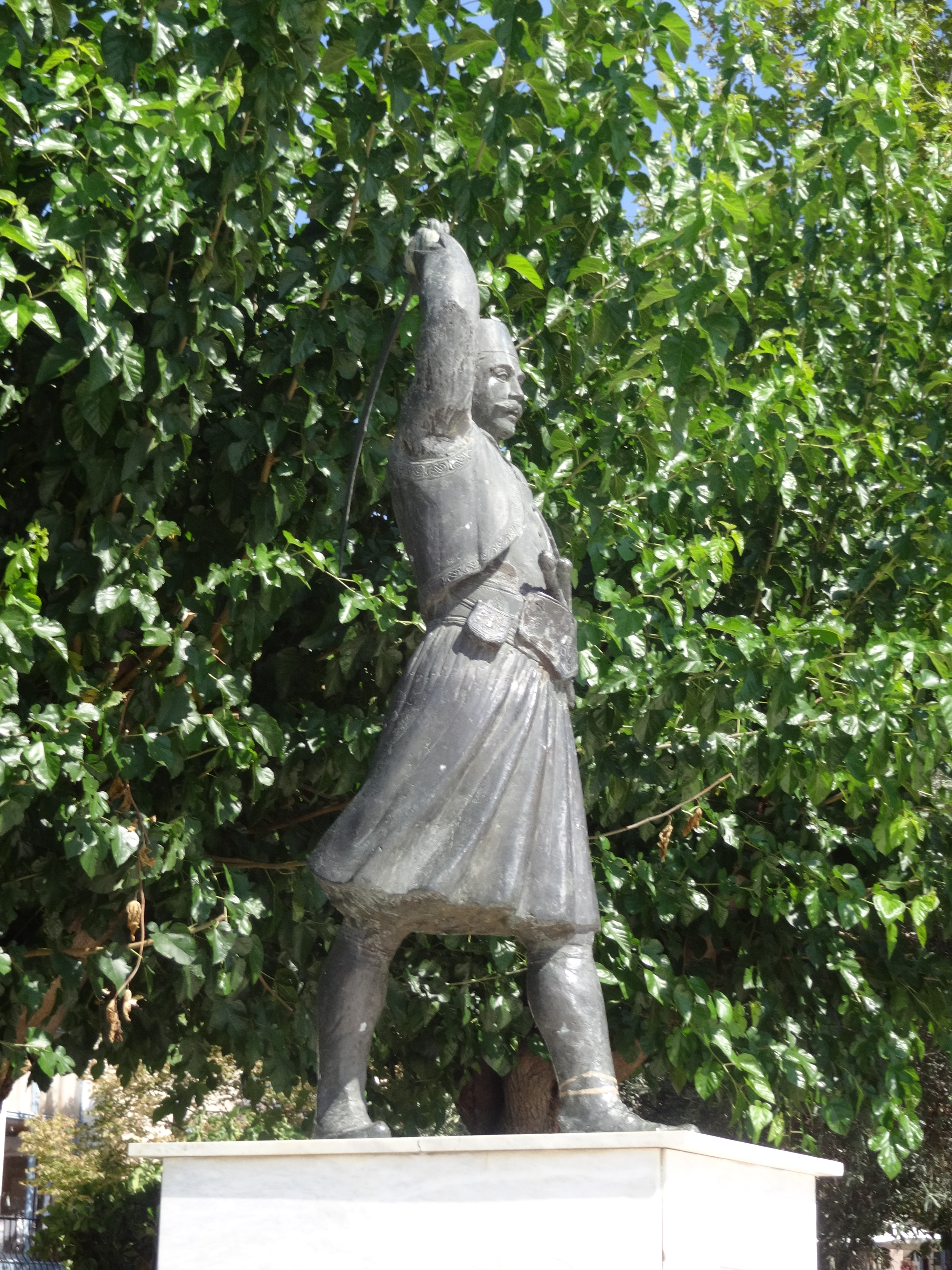 Elassona, Greece. Monument to revolutioner Nikotsaras (1774-1807)